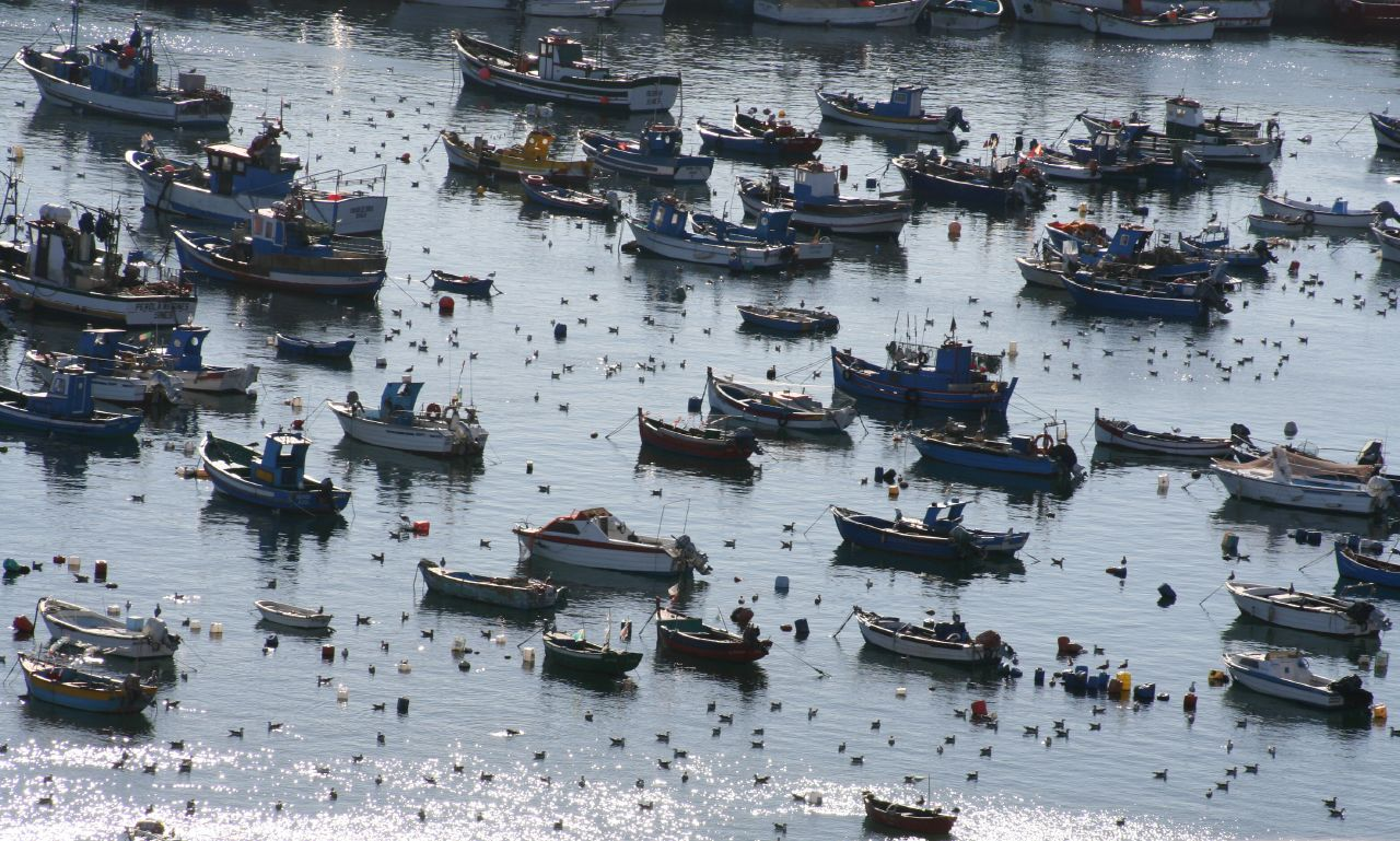 Fishingboots in the Port of Sines